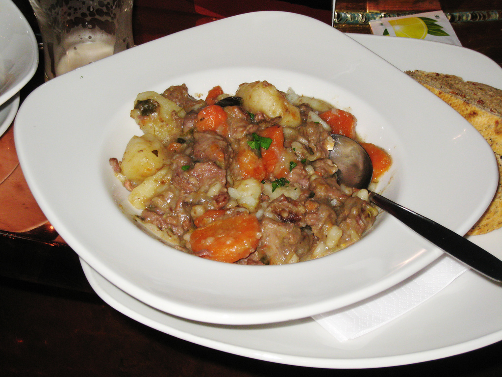 Irish stew